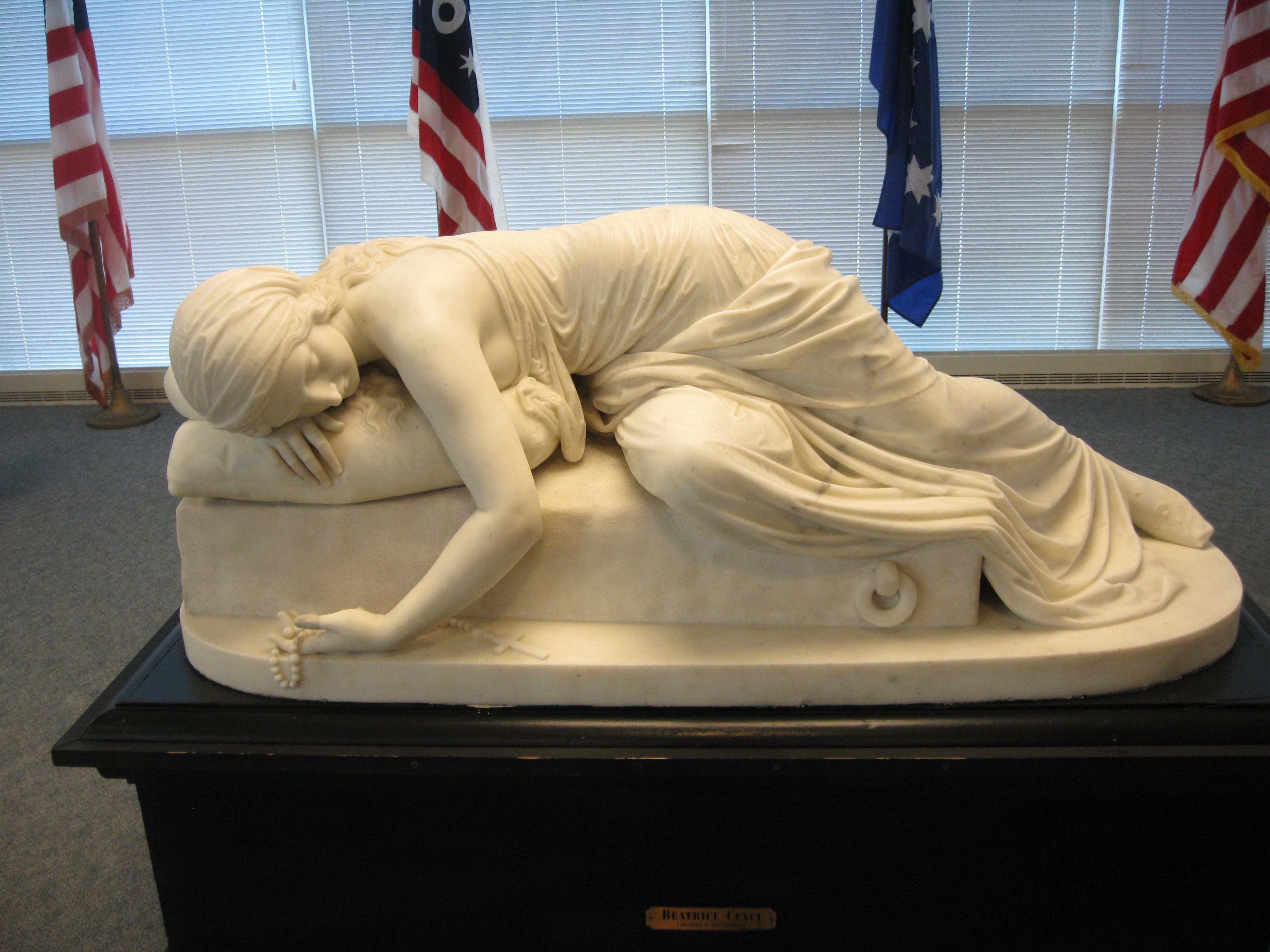 Front view of Beatrice Cenci, marble sculpture (1857) by Harriet Goodhue Hosmer. Location of sculpture is the Mercantile Library at the University of Missouri-St. Louis, St. Louis, Missouri, USA.